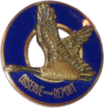 Emblem of the 12th Observation Group